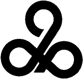 Miho Ibaraki chapter